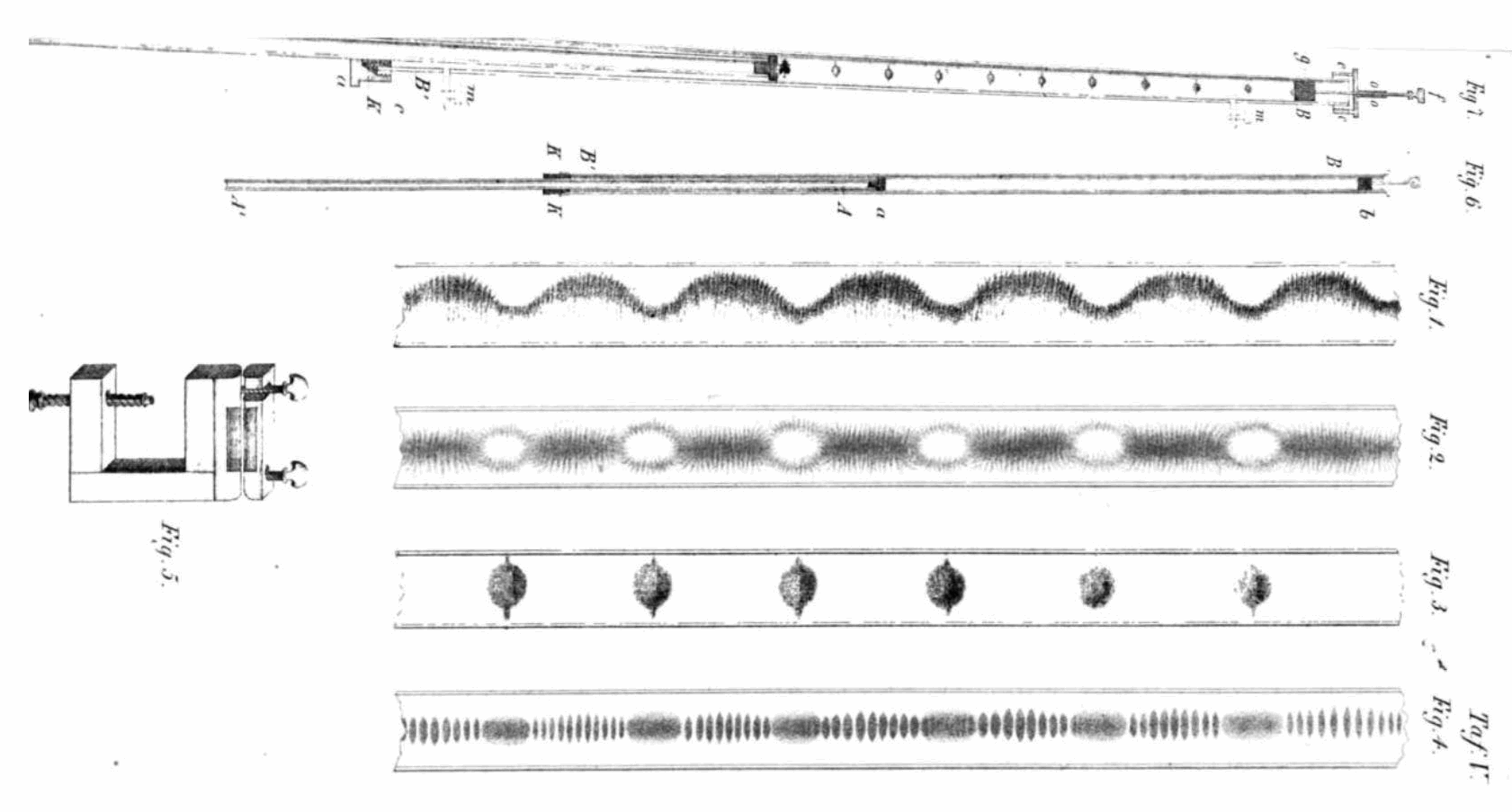 Drawing of the acoustic apparatus called Kundt's tube, invented by August Kundt in 1866 to measure the speed of sound in gasses; also shows standing wave patterns created with it. From Kundt's original 1866 paper. The device (fig.6 & 7) was a horizontal glass tube (B,B') containing a small amount of fine powder. One end had a piston attached to the end of a metal resonator rod (A,A'), clamped at its center (K), excited by rubbing with chamois, so it radiated sound waves into the tube. The other end was blocked by a moveable piston (I) which could be used to adjust the length of the tube. When the tube was adjusted to resonance, the powder collected in piles at the nodes of the standing wave as shown in Fig. 3, at intervals of half a wavelength (λ/2), allowing the wavelength of the sound to be measured. Figs 1, 2, & 4 show more complicated patterns (striations) produced by the sound waves. Alterations to image: Rotated 90° clockwise